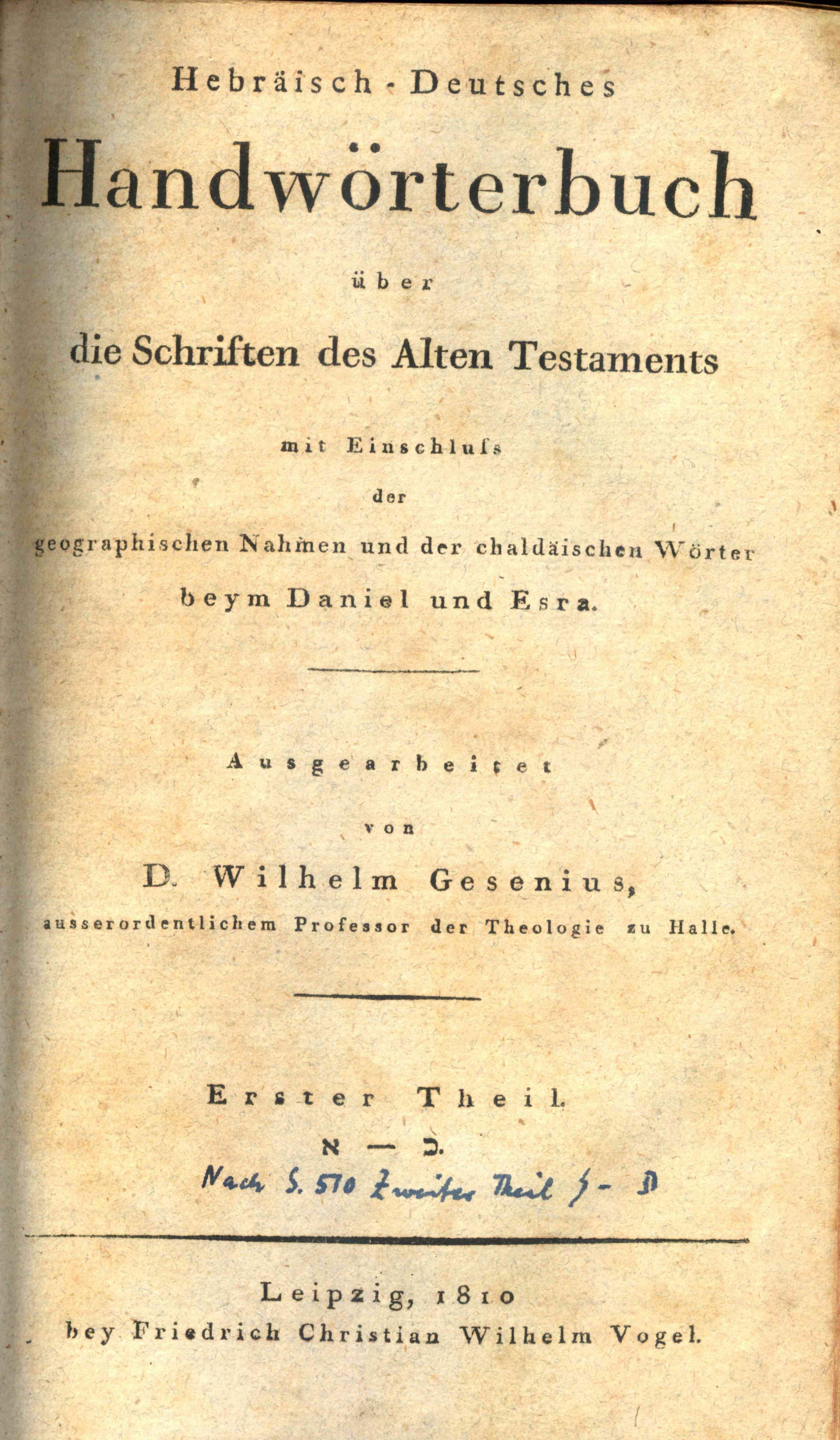 Title Page of Genesius' Dictionary